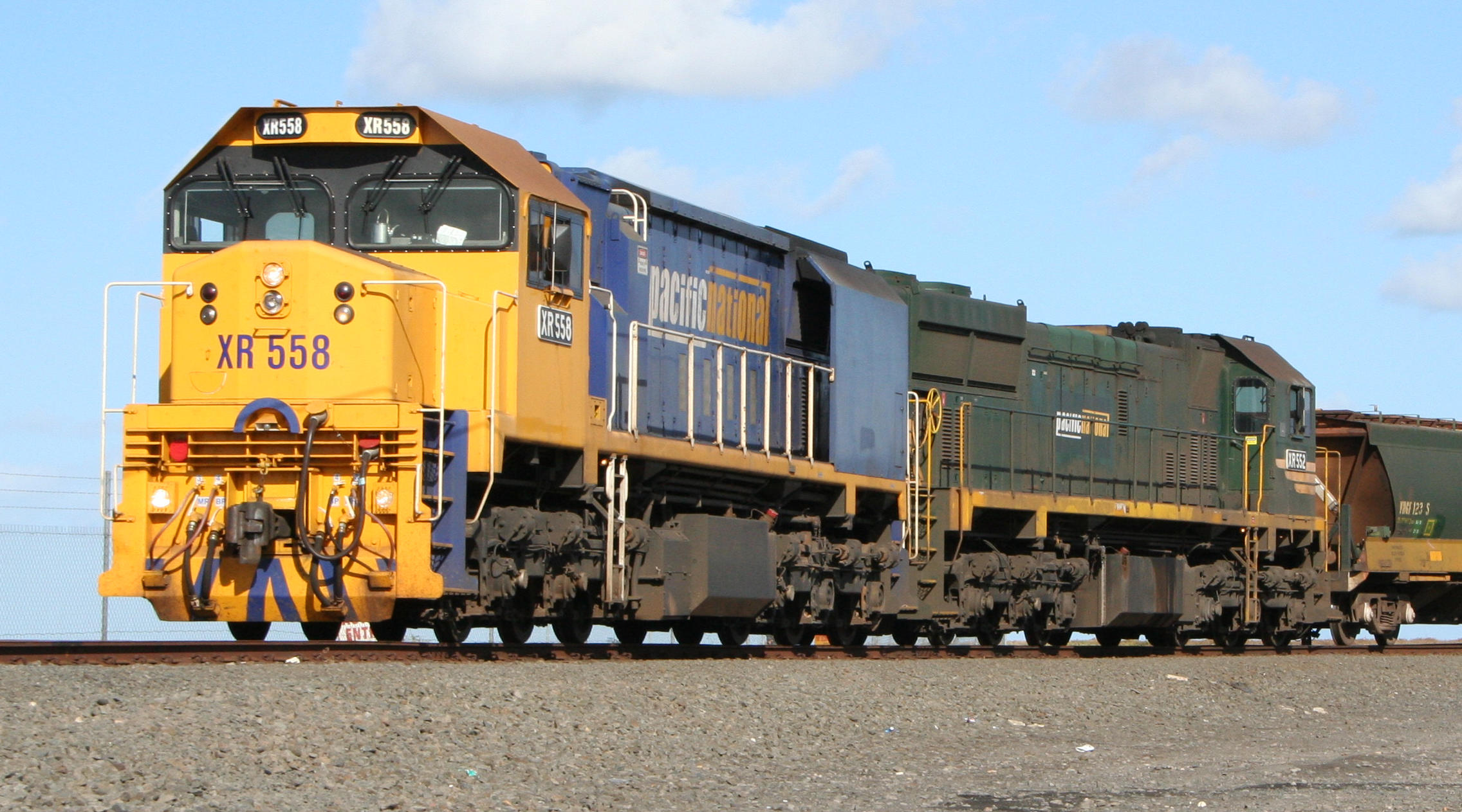 Australian diesel locomotives XR 558 and XR552 at the Grain Loop, Geelong, Victoria